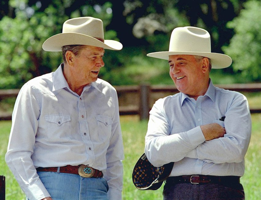 Ronald Reagan and Mikhail Gorbachev relax at Reagan's California ranch. President Reagan gave this cowboy hat to Mikhail Gorbachev, which he promptly put on backwards.